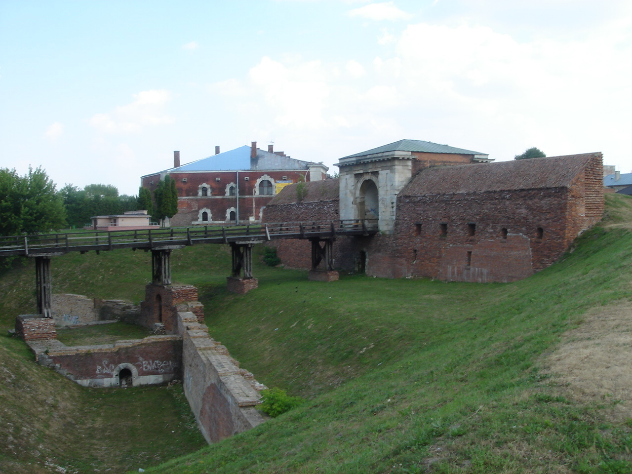 The New Lubelska Gate in Zamość